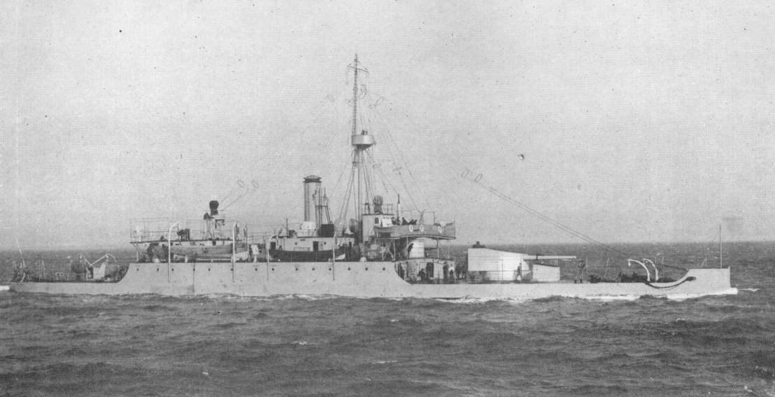 British monitor HMS Mersey.